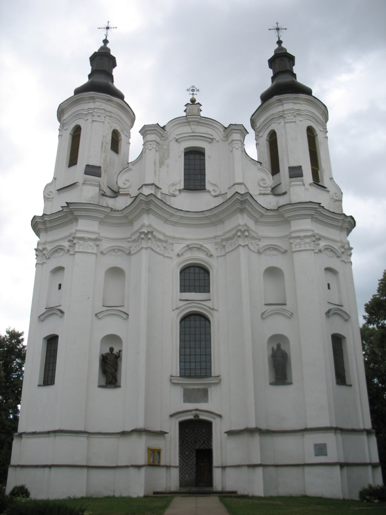 Church of Saint Andrew (Slonim, Belarus)